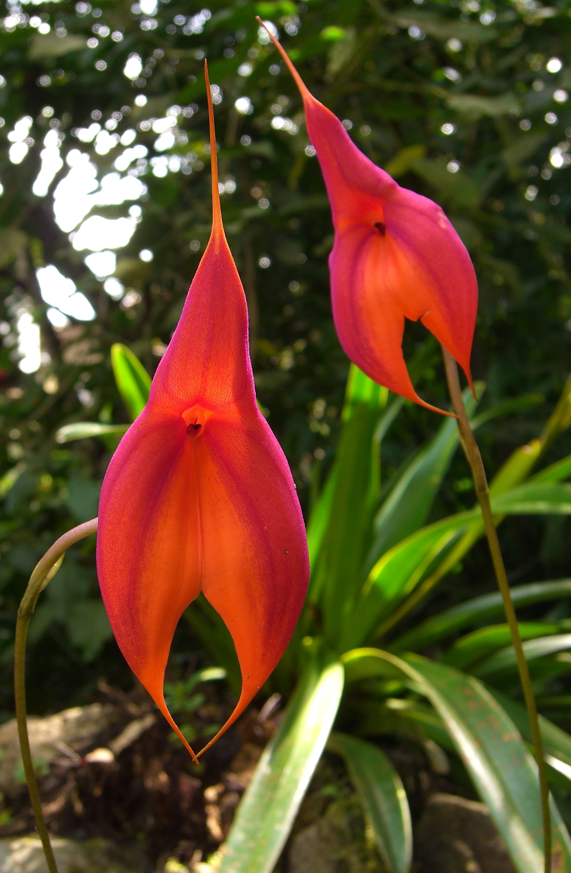 Please report references to .